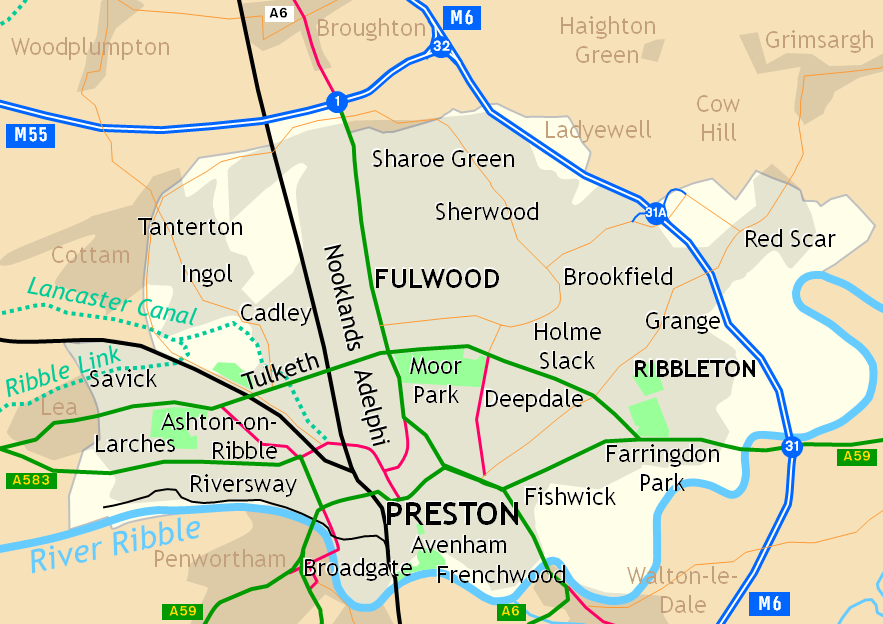 Places in the urban settlement of Preston, Lancashire, England.